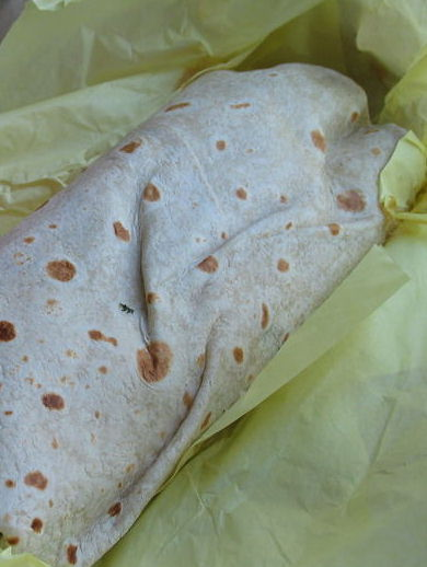 cropped Image:IMG 0810.JPG A very large burrito (from Juanita's in Pomona, CA).